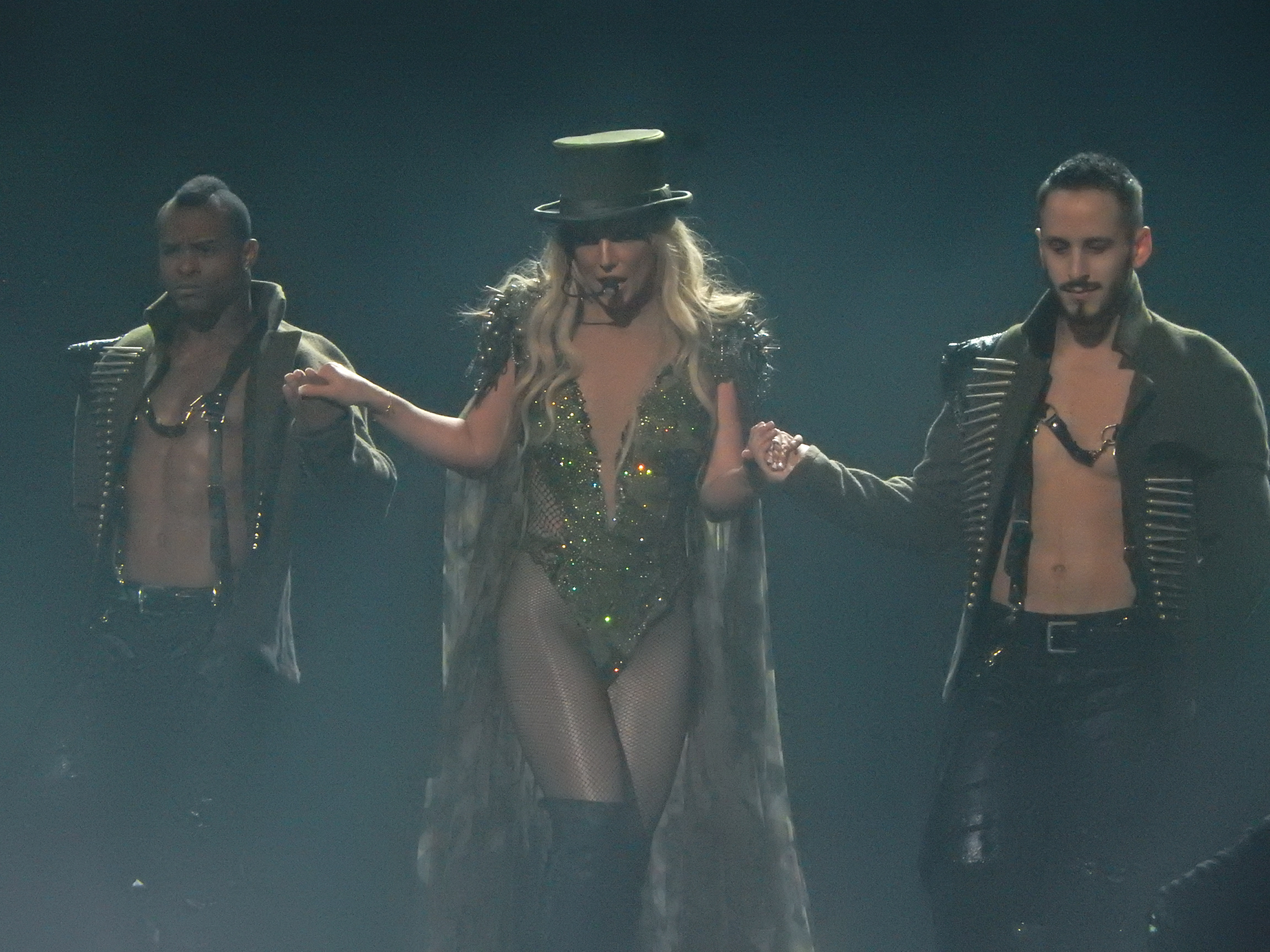 Britney Spears, Roundhouse, London (Apple Music Festival 2016)